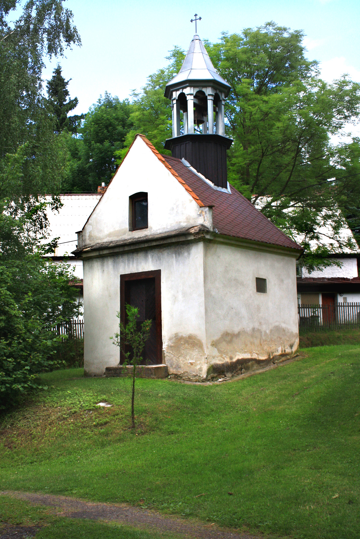 Small chapel in Pyšná, part of Vysoká Pec village, Czech Republic